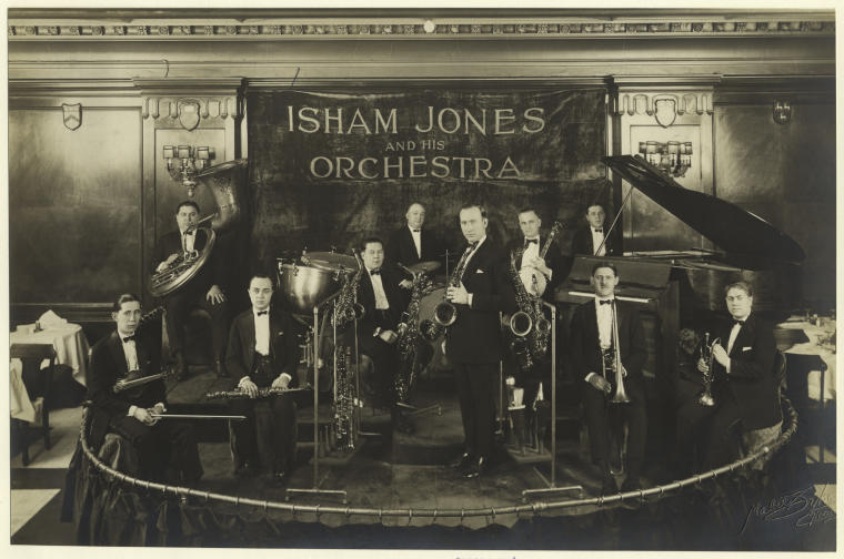 Digital ID: 832179. Mabel Sykes -- Photographer. 1922 Notes: Written on mount: 'Dec. 1922' Source: Mid-Manhattan Picture Collection / Music -- 1900s (more info) Repository: The New York Public Library. Mid-Manhattan Library. Picture Collection. See more information about this image and others at NYPL Digital Gallery. Persistent URL: Rights Info: No known copyright restrictions; may be subject to third party rights (for more information, click here)